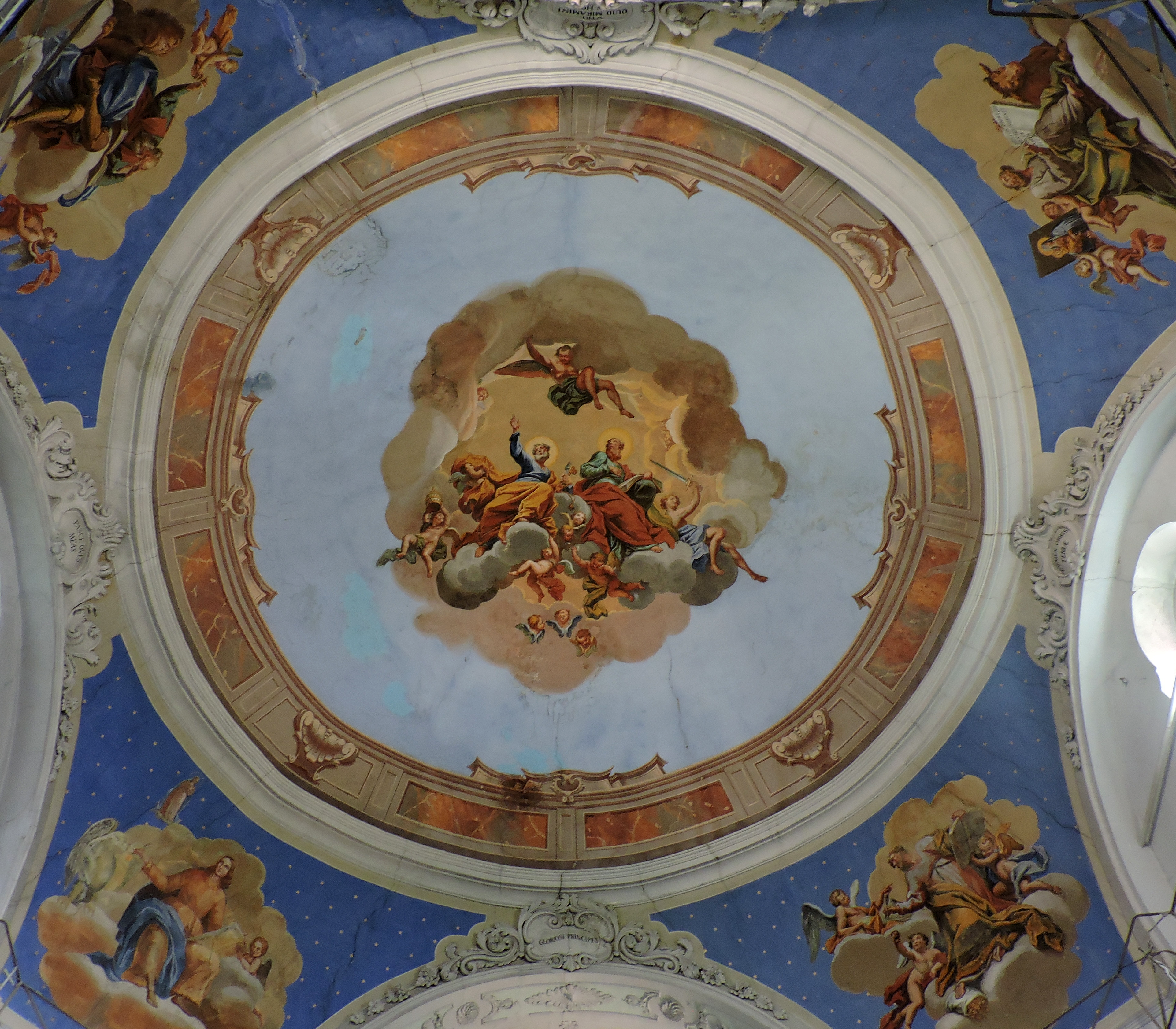 Sasso di Bordighera (IM, Italy): parish church vault, attributed to Maurizio Carrega